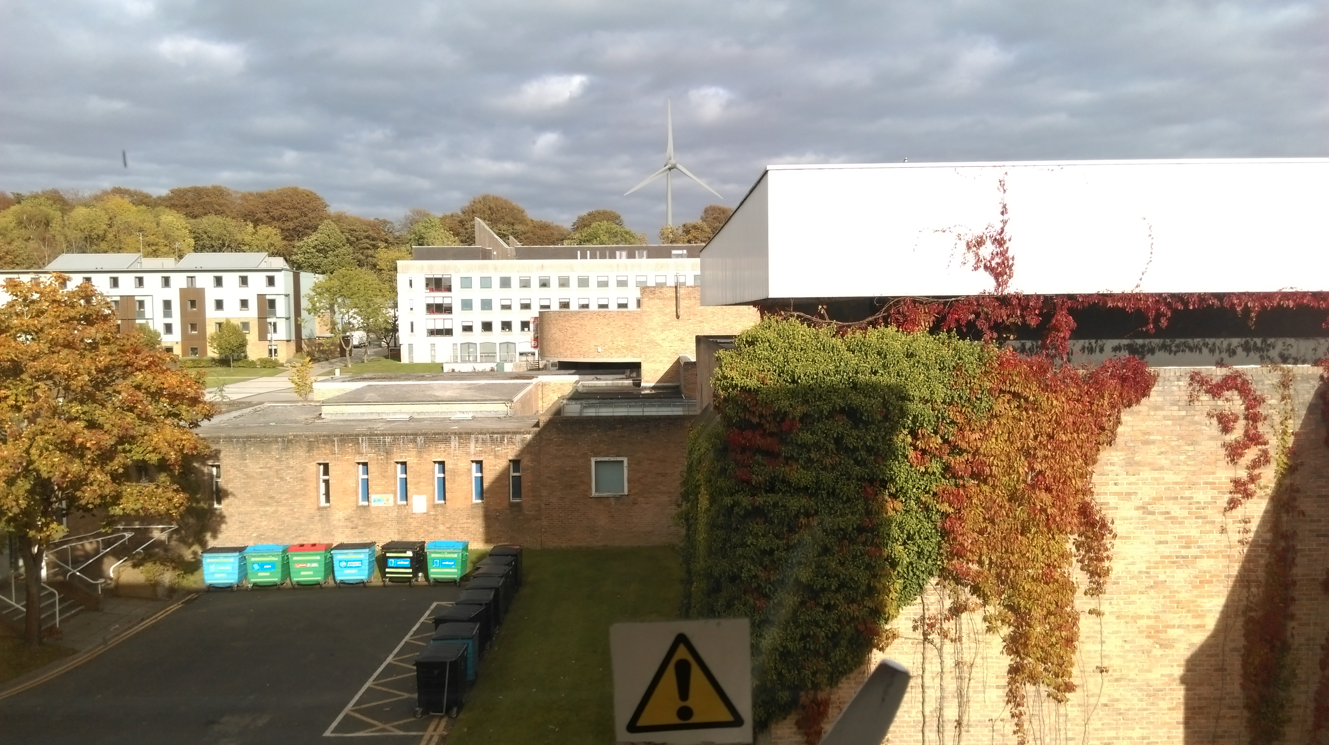 123bowland annexe